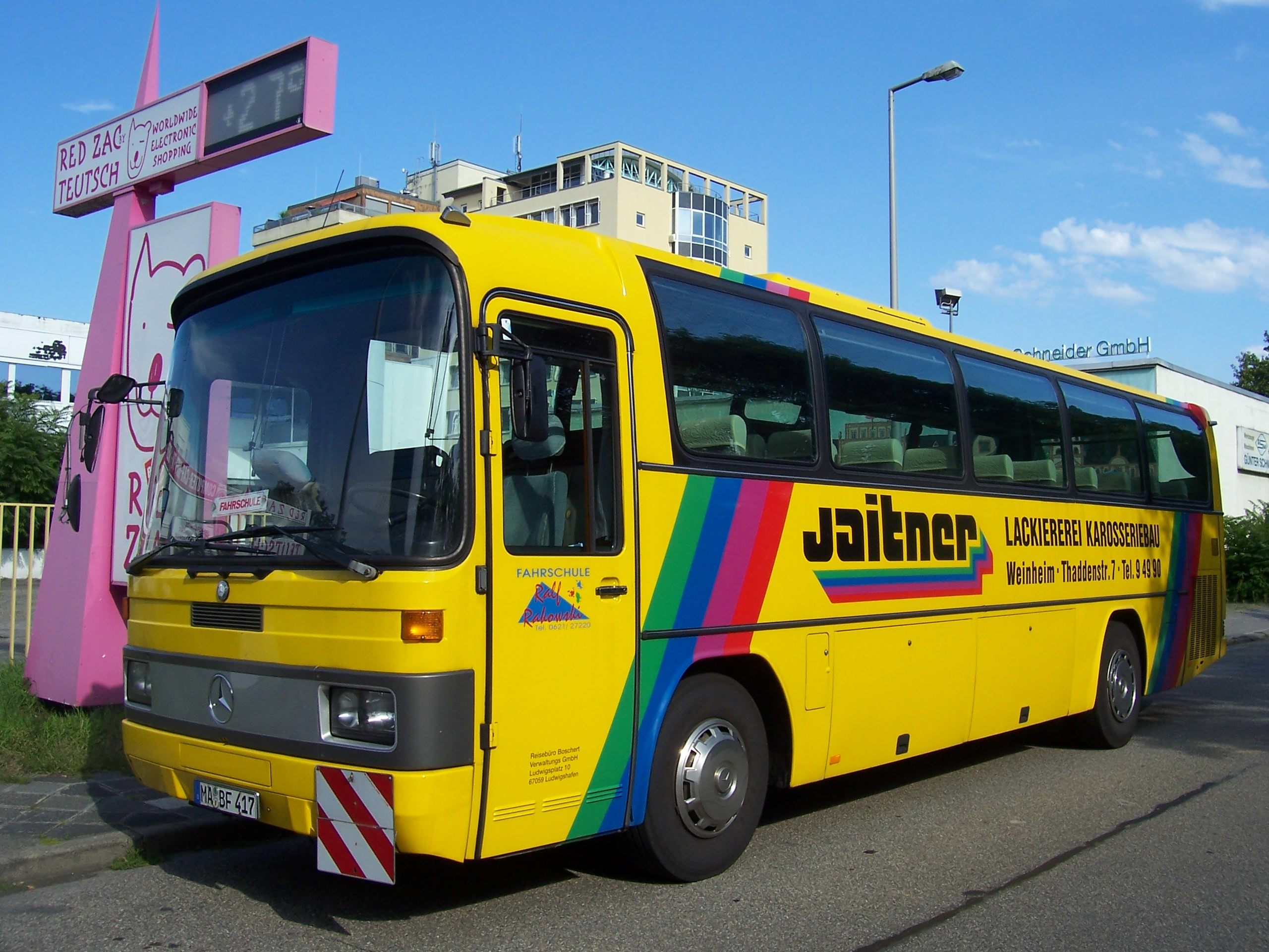 Mercedes-Benz O 303 13RHS bus (reg. MA-BF 417) in Mannheim, Germany.